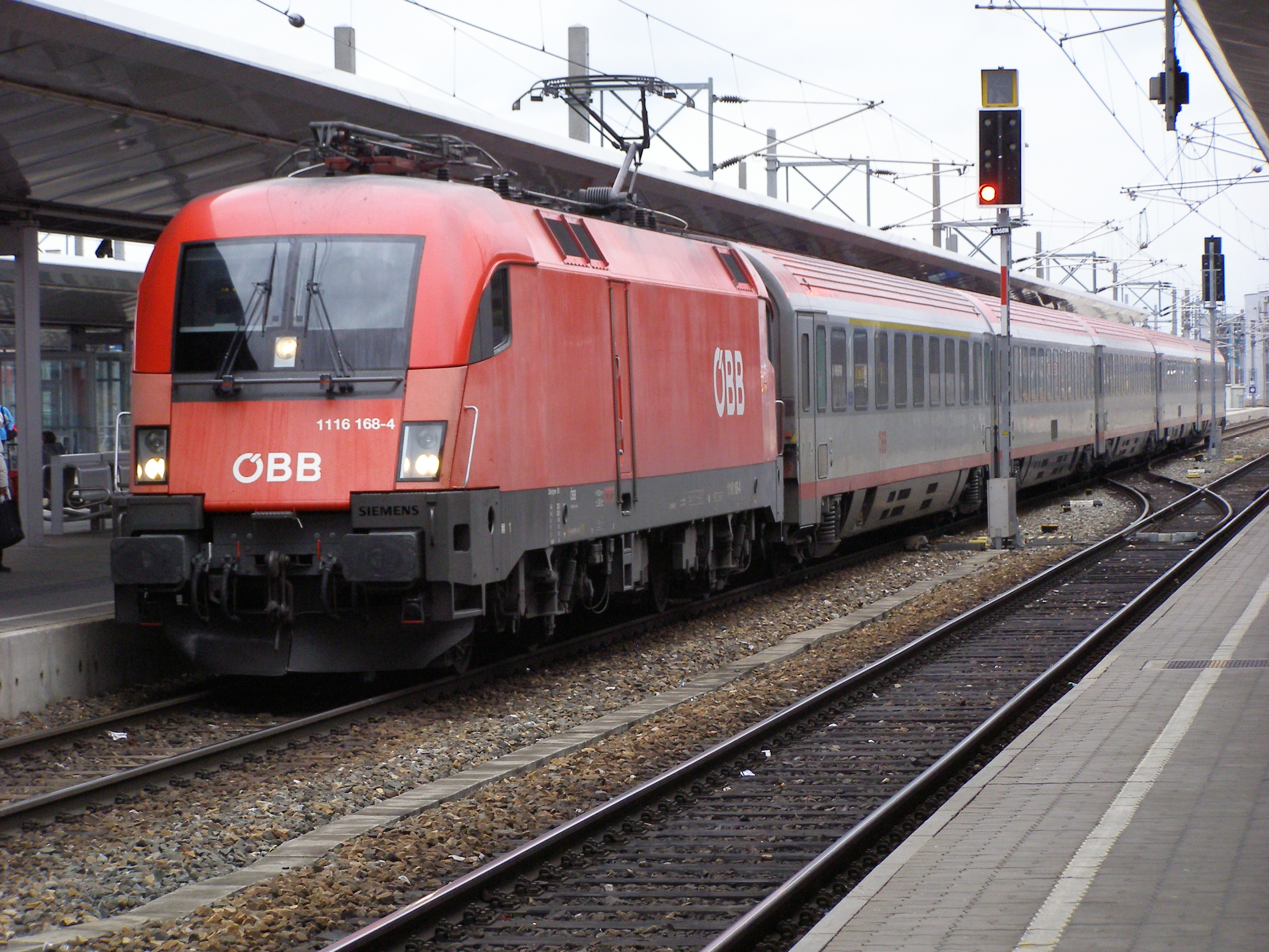 Vienna - ÖBB Siemens ES64U2 Taurus 1116-168 locomotive with IC 557 train to Graz on Wien Meidling station